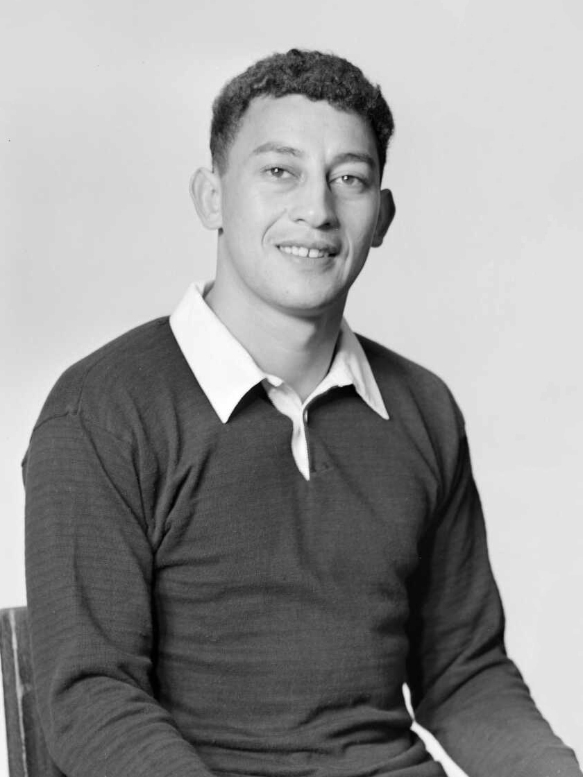 Photograph of rugby player Mokai Mack Herewini, known as Mac Herewini, taken by Crown Studio Ltd of Wellington.